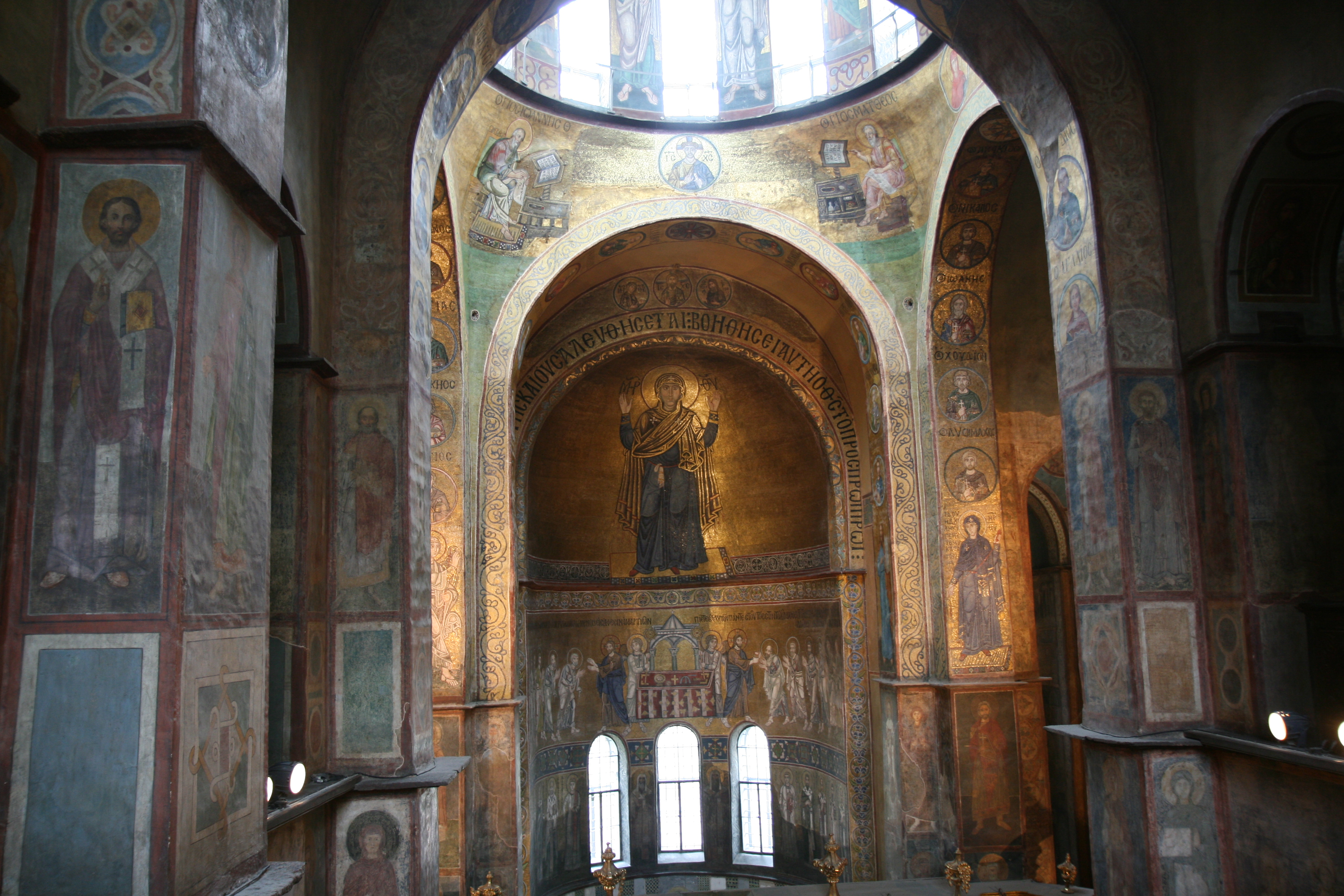 Kiev. Sophia cathedral. Interior. Mosaic in apside. XI cent.